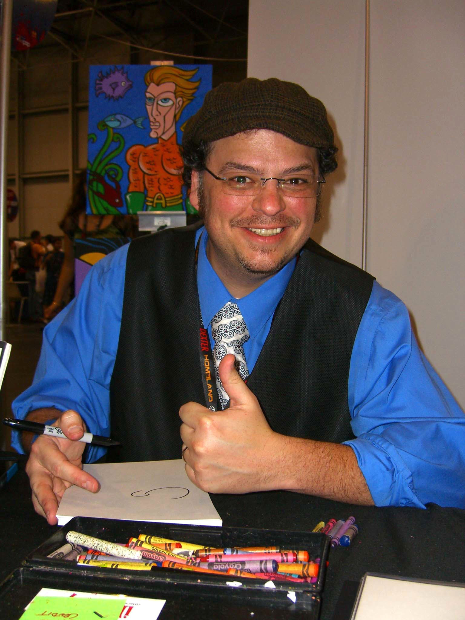 Comics creator Art Baltazar at the New York Comic Con, October 15, 2011. This photo was created by Luigi Novi. It is not in the public domain, and use of this file outside of the licensing terms is a copyright violation.